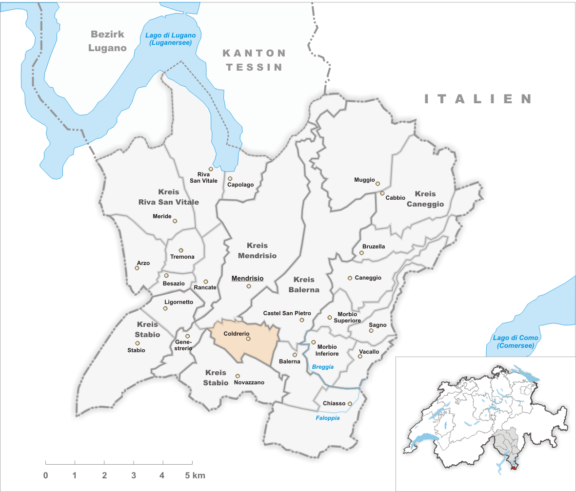 Municipality Coldrerio